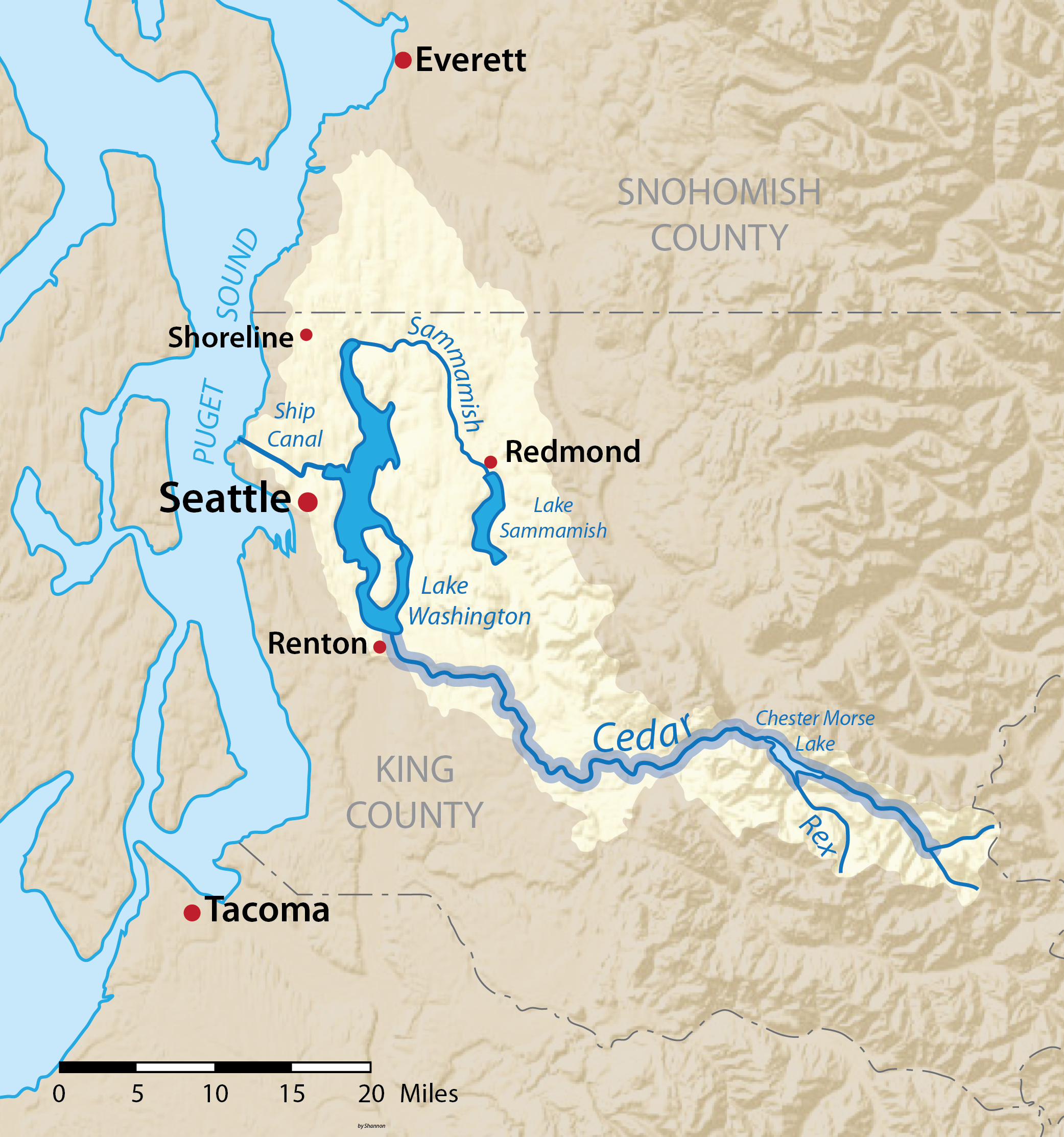 Map of the Lake Washington watershed in Washington, USA with the Cedar River highlighted. Made using USGS National Map data.